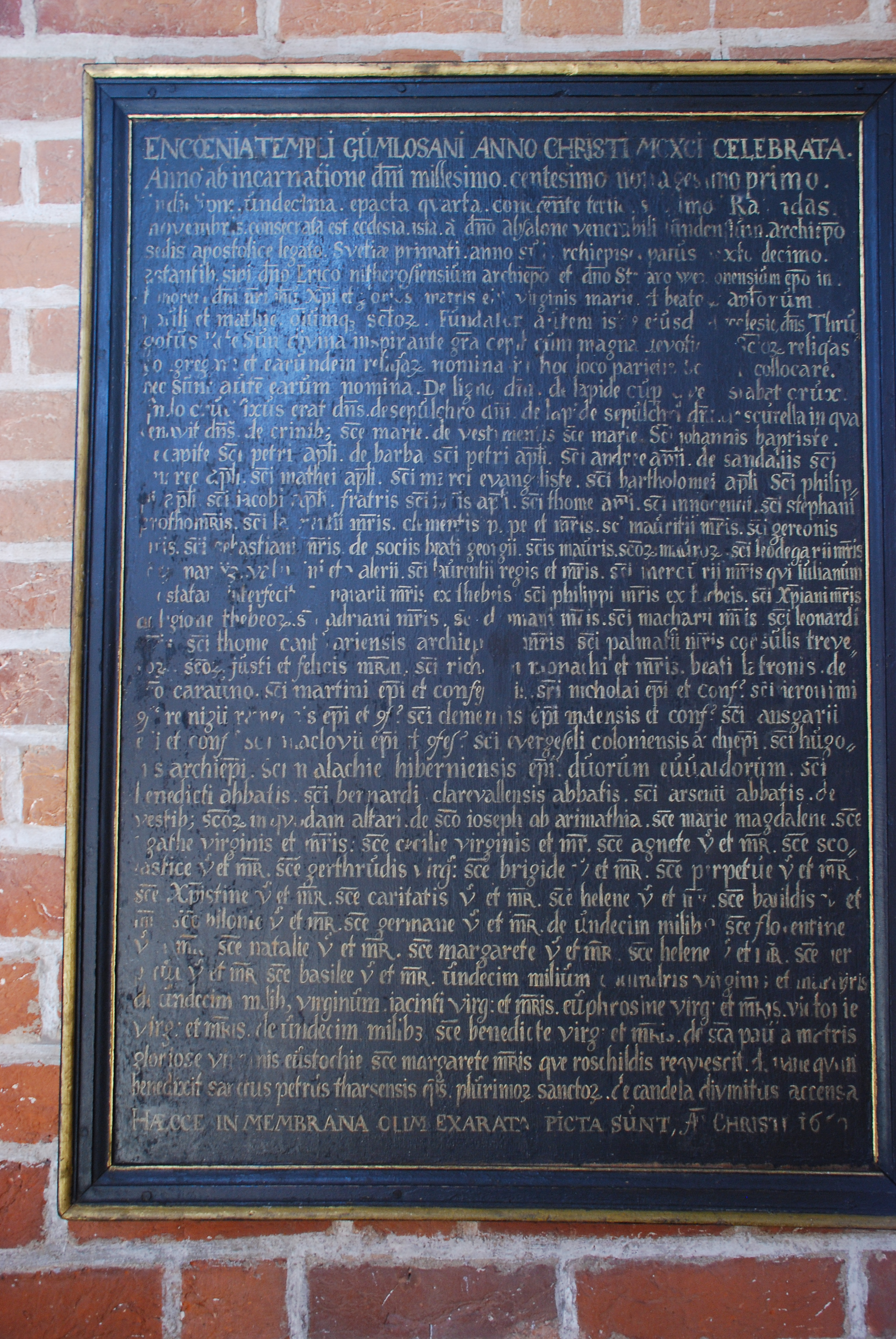 Sign about founding Gumlösa church in 1191